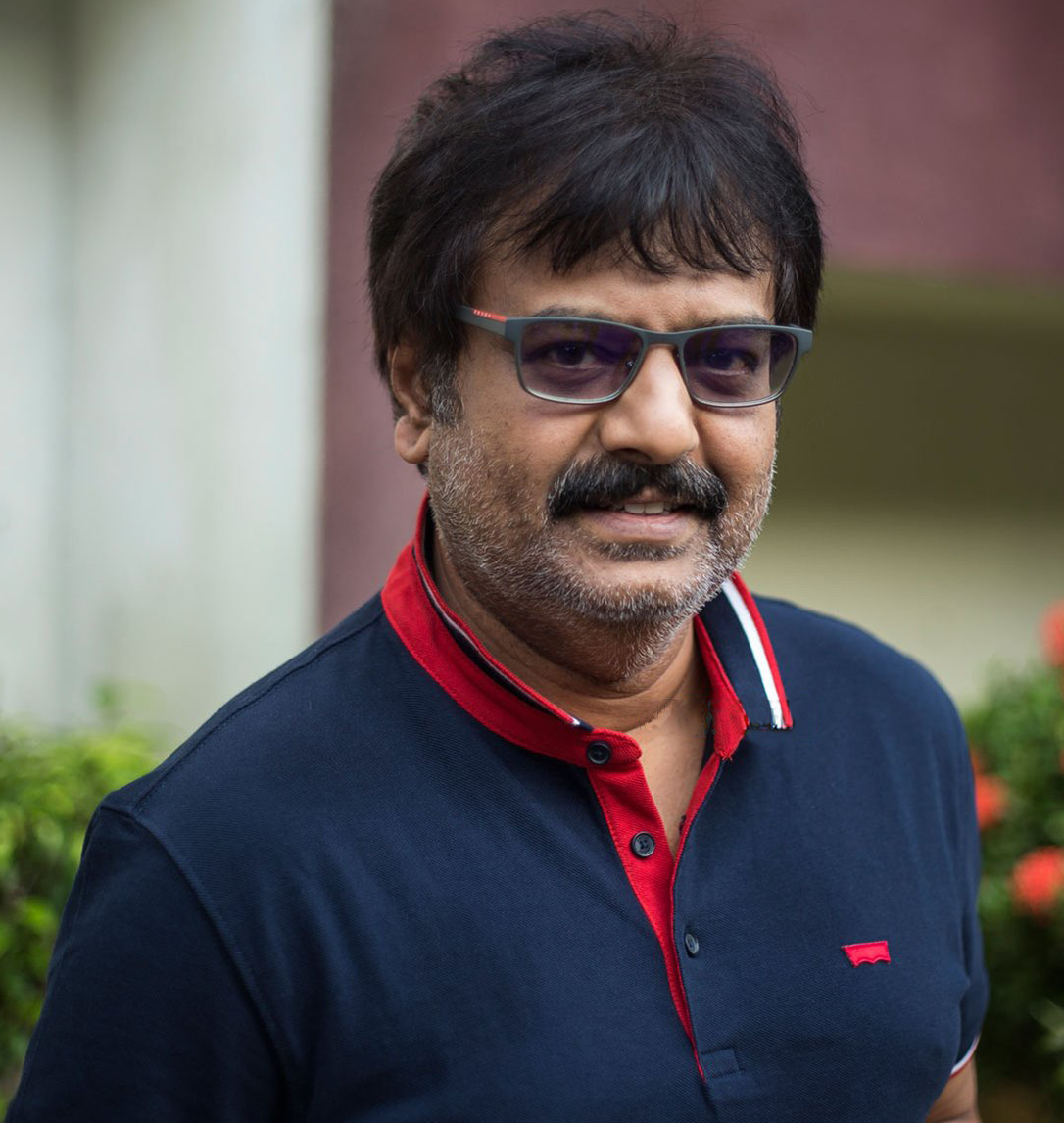 Vivek at the Ezhumin Press Meet